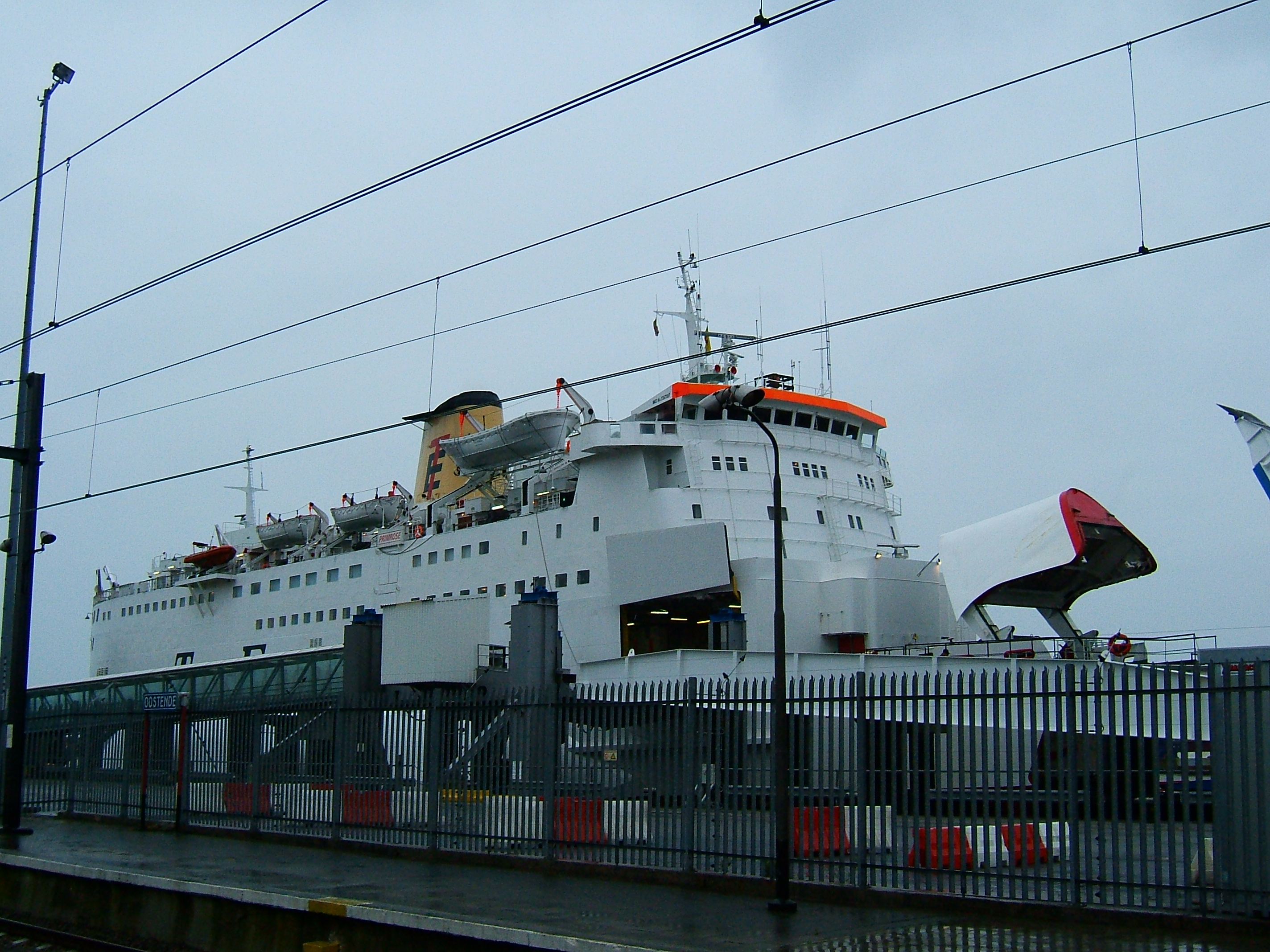 Primrose, ex-RMT Prinsesse Marie-Christine IMO Number: 7357567 MMSI Number: 212659000 Callsign: P3BX8 Length: 118 m Beam: 25 m